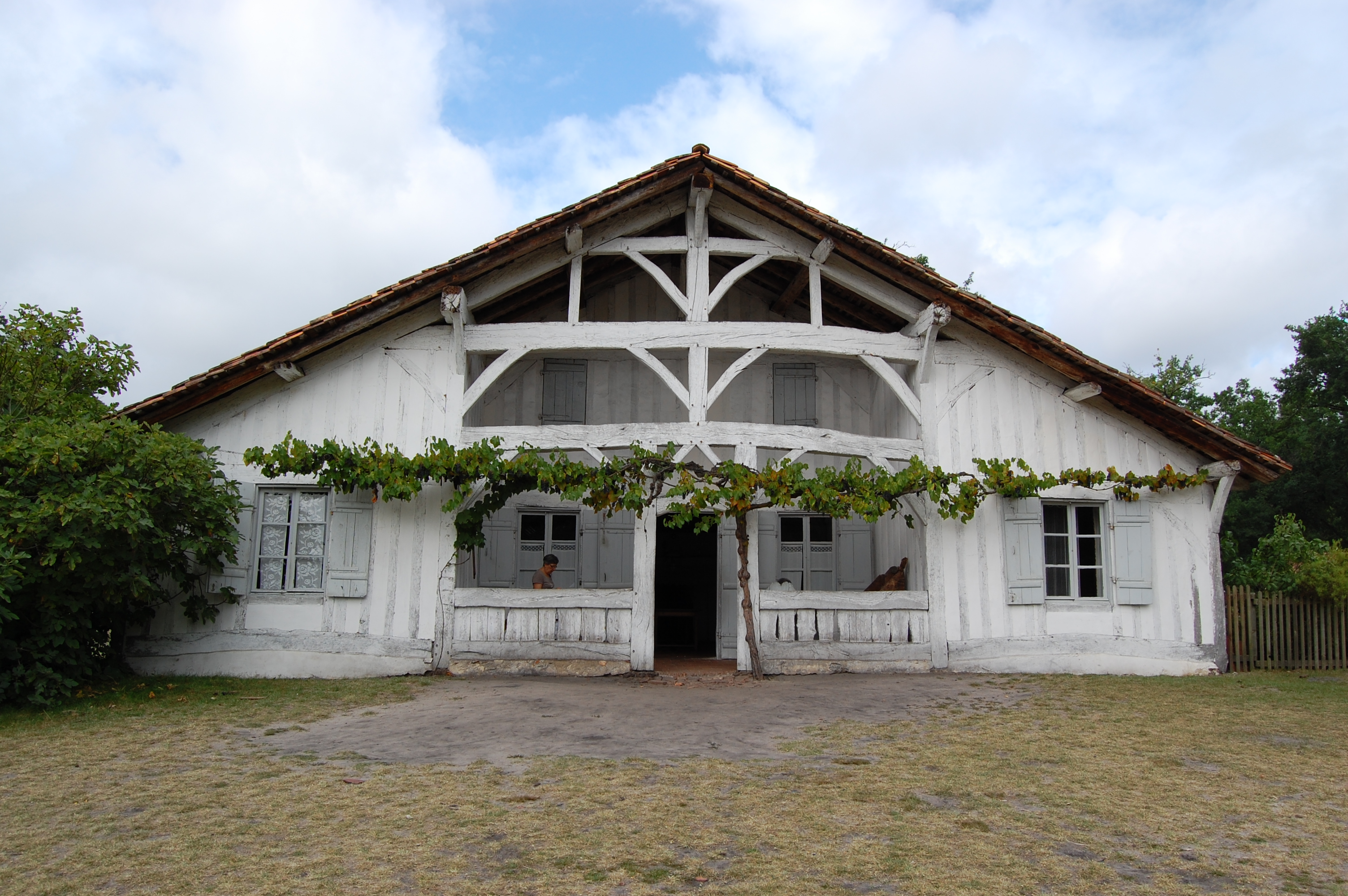 Maison de maitre, Marquèze